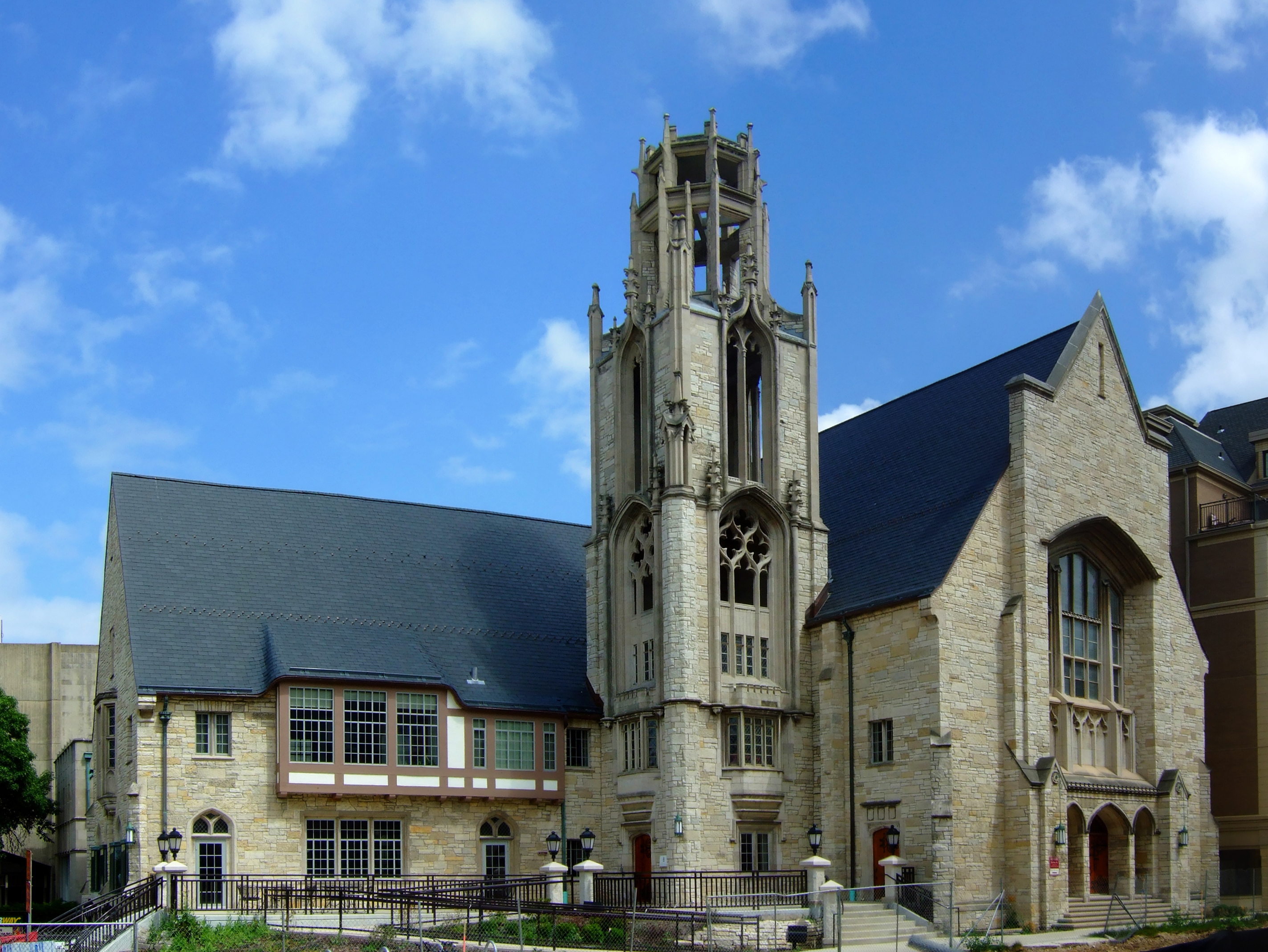 University Presbyterian Church and Student Center on the campus of the University of Wisconsin-Madison. Added to the National Register of Historic Places in 2002.